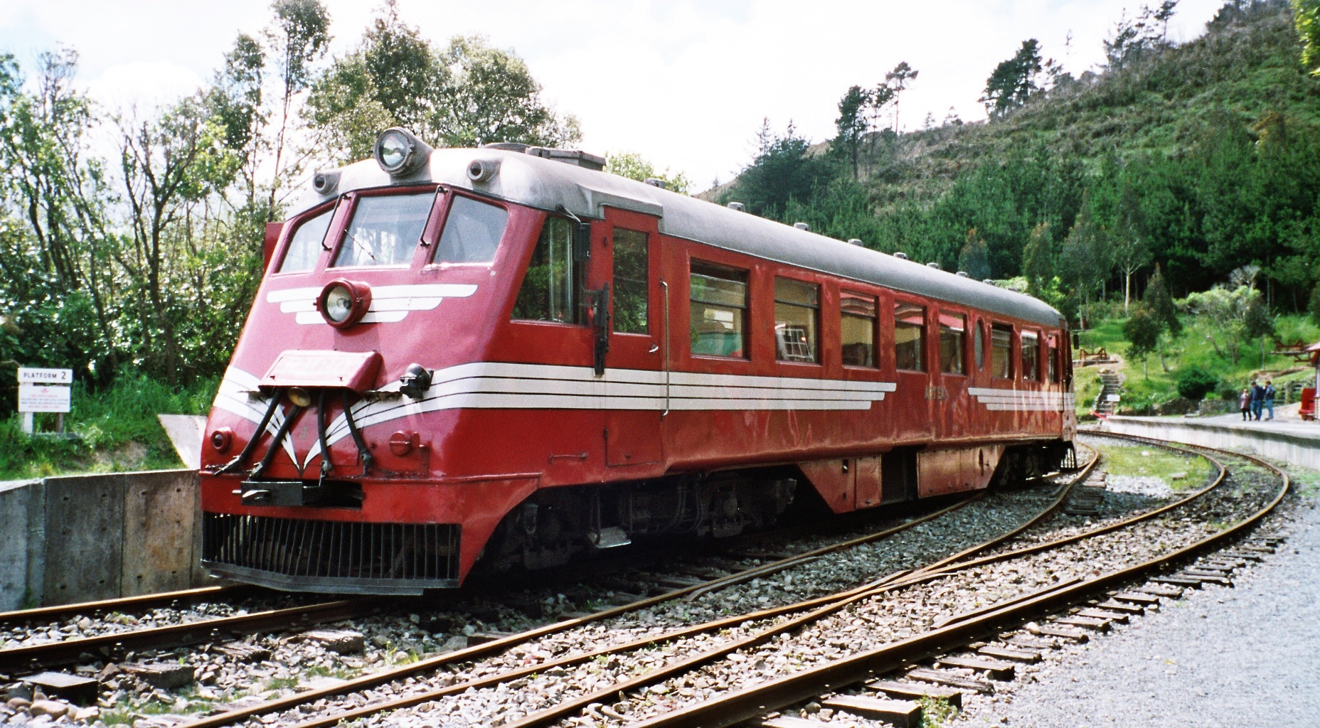 diesel railcar RM30, silver stream railway, new zealand